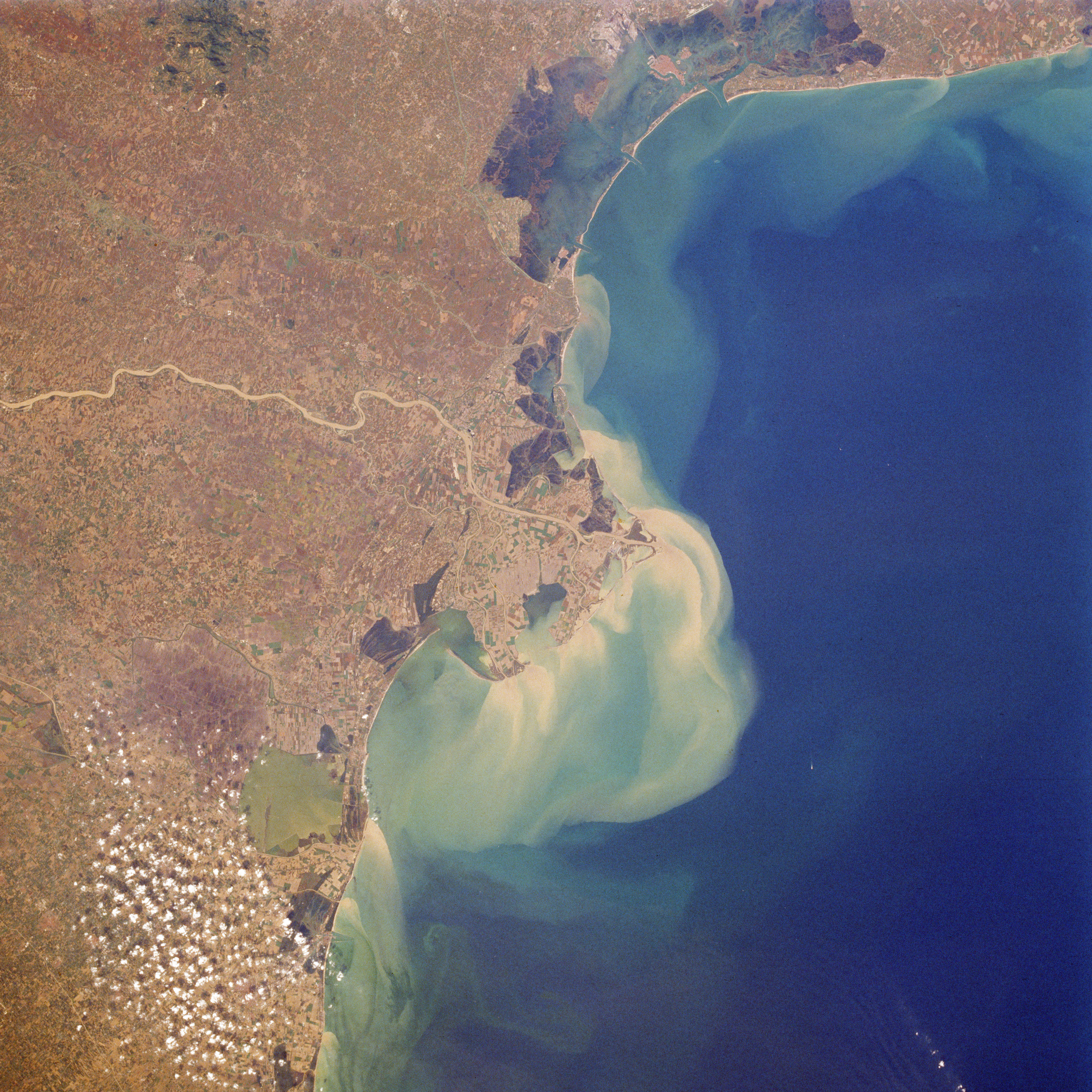 Delta of the Po River and the lagoon of Venice seen from space in 1984.